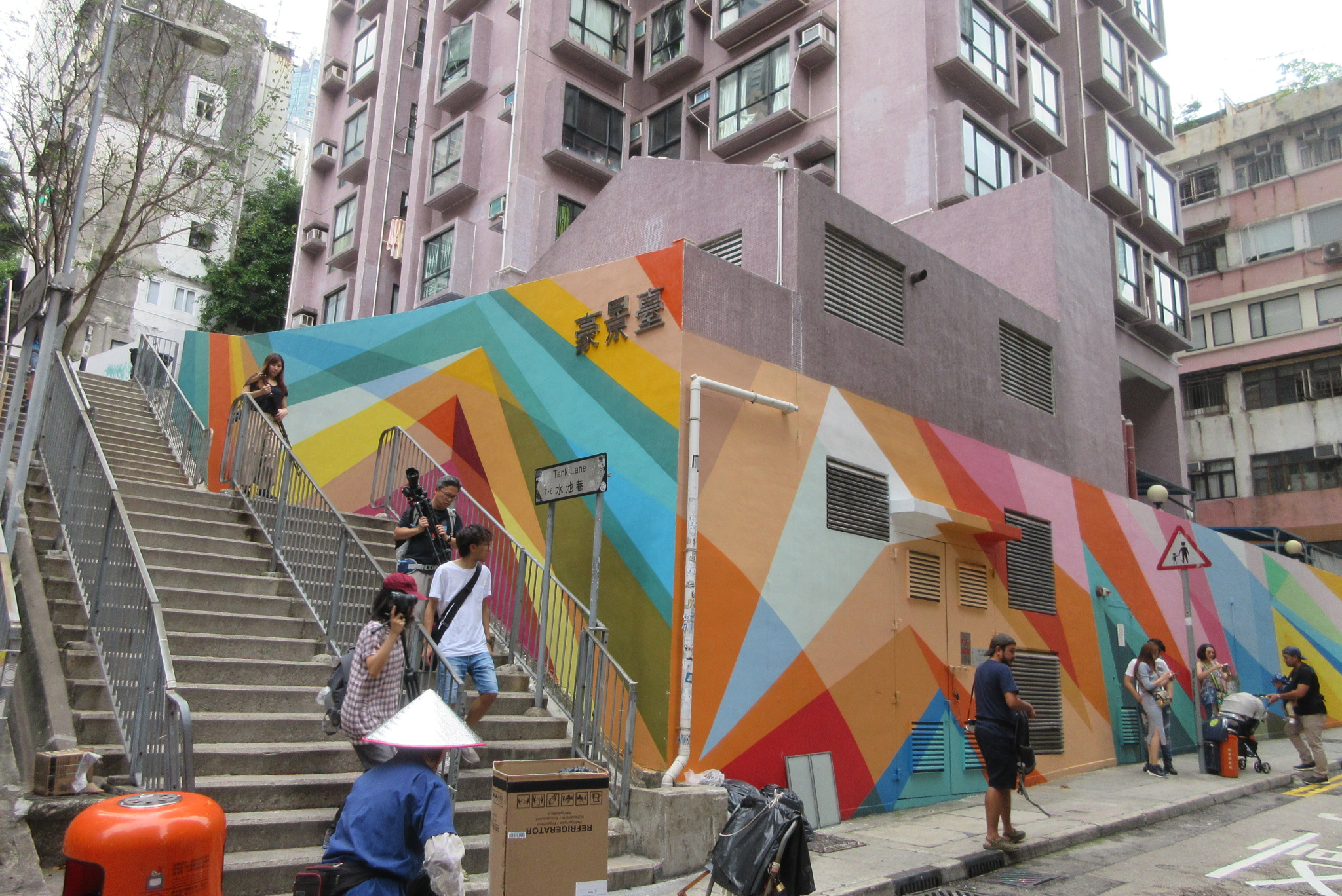 HK Sheung Wan 上環 四方街 Square Street in May 2017